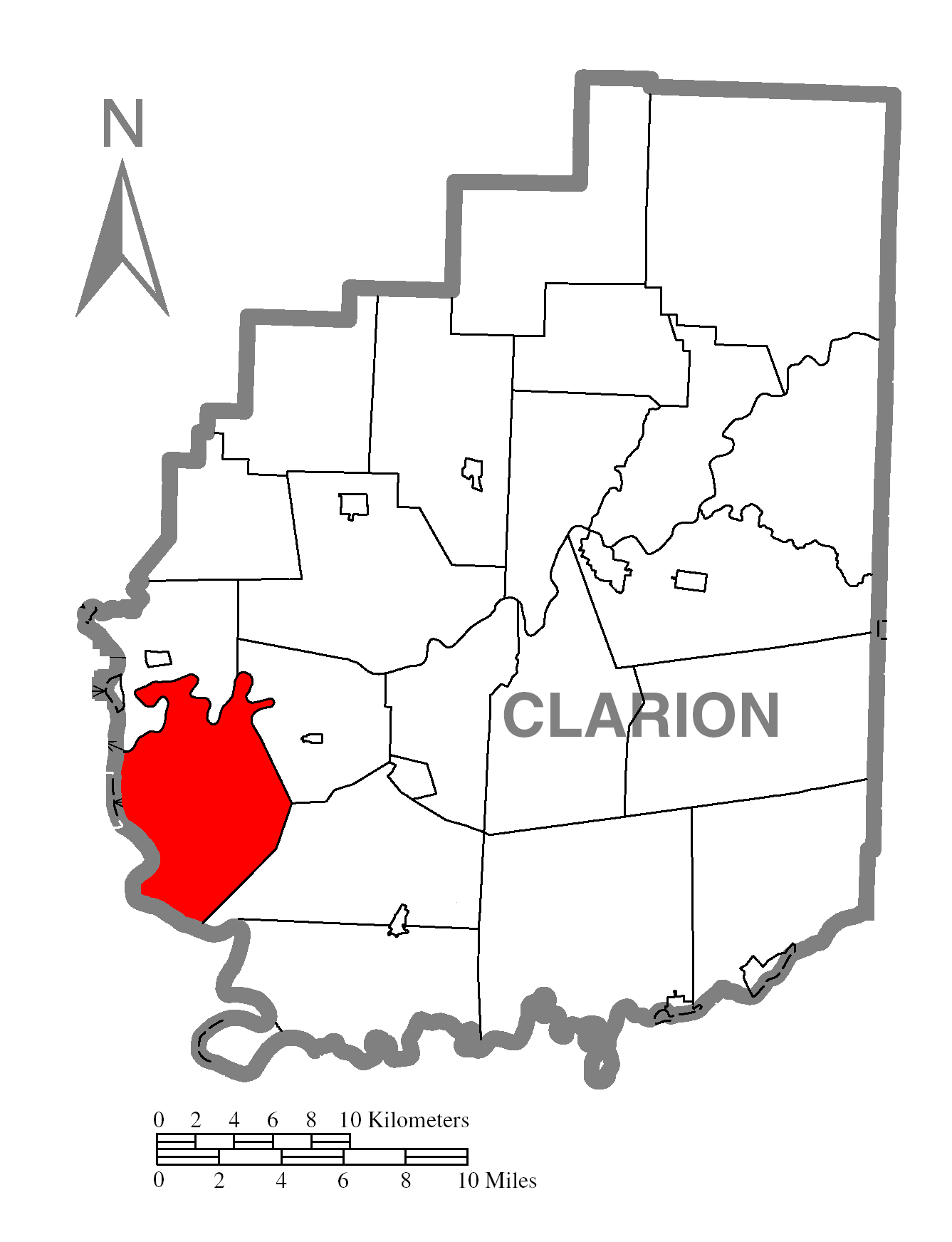 A map of Clarion County showing Perry Township, Pennsylvania (alternate) highlighted on the map.